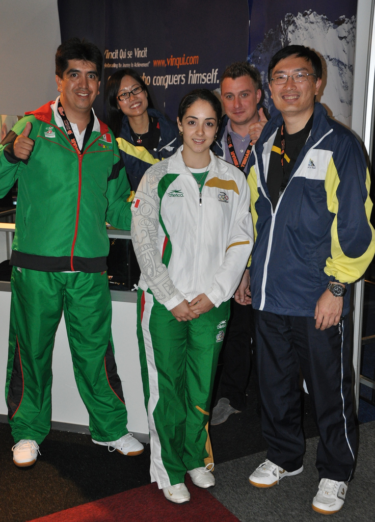 VQ team (Parry Chui, Jakub Wankowicz (Jersey) & Sherman Chui) with Mexico No.1 Yadira Silva, 2011 World Table Tennis Championships.